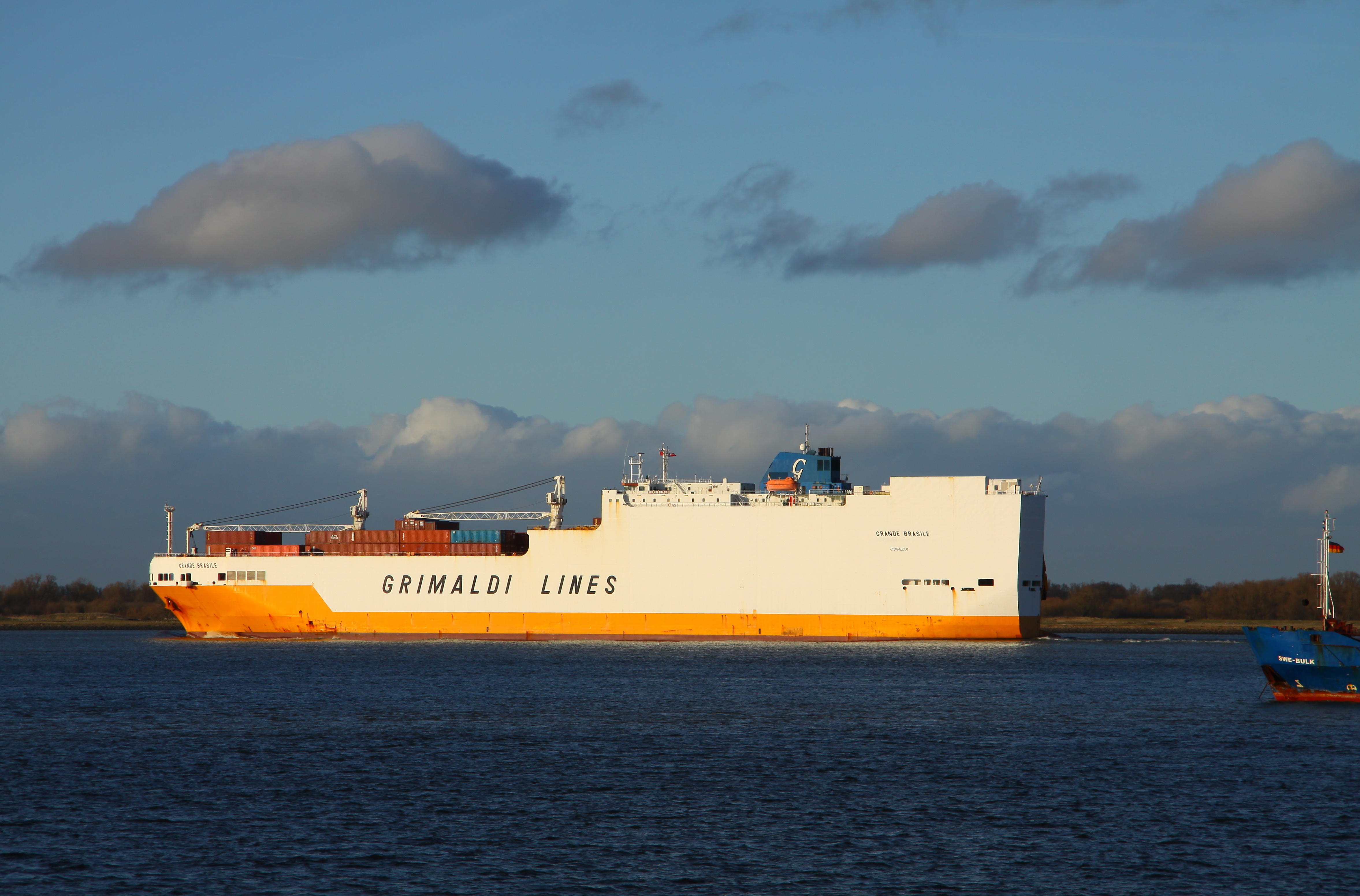 Grimaldi Lines Grande Brasile on the Elbe near Stade.[1]